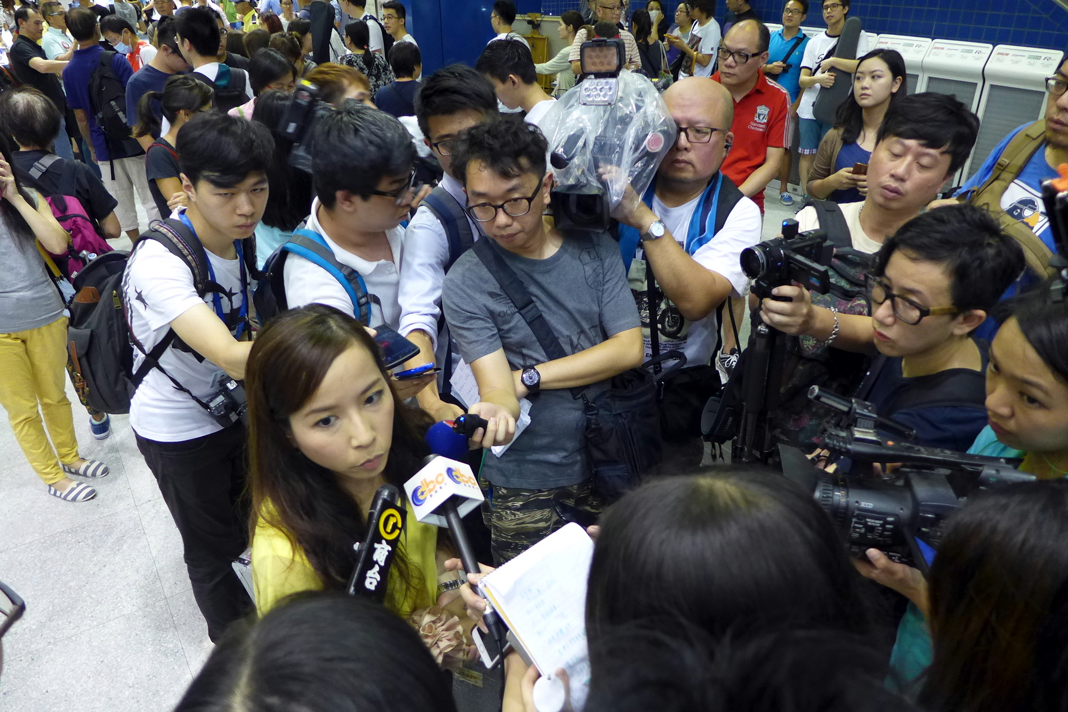 Mavis Lung Interview in Tai Wai Station